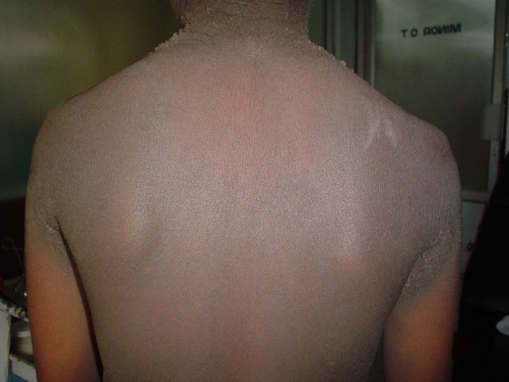 Familial acanthosis nigricans, 13-year-old boy with an 8-year history of generalized hyperpigmentation and velvety thickening of the skin. Based on the history and clinical examination a diagnosis of benign AN was considered. The diagnosis of epidermolytic hyperkeratosis was considered, but was excluded on the basis of negative history and histopathological findings. The patient was treated with oral vitamin A , topical retinoids, and keratolytics. After follow up for one year neither endocrinological nor malignant diseases have developed. source